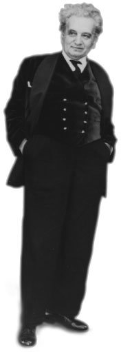 Born May 11, 1881, in Budapest, Hungary, Theodore von Kármán was a pioneer in theoretical aerodynamics.